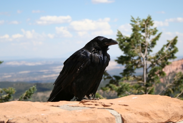 Corvus corax at Bryce Canyon National Park